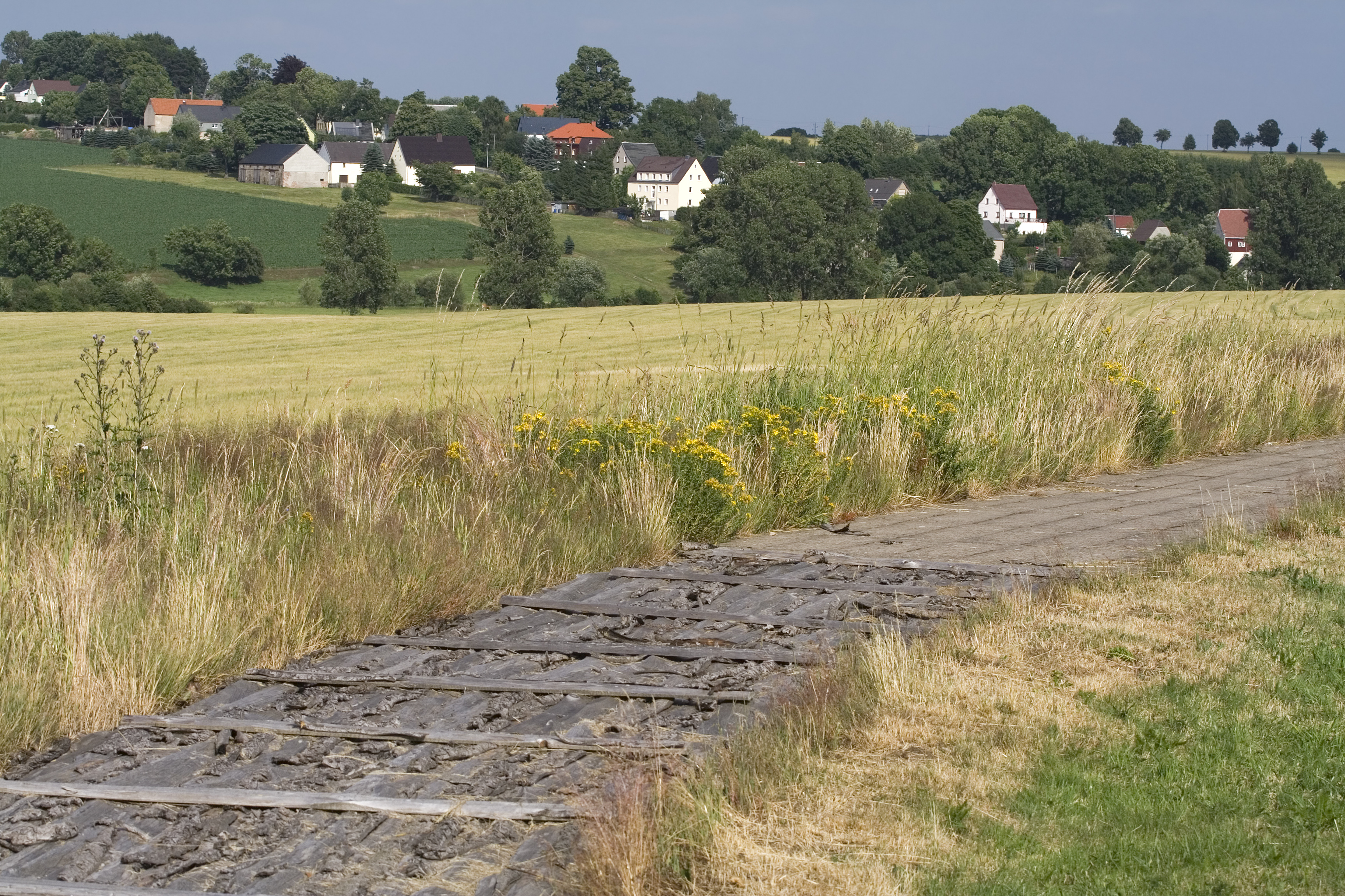 Hohbirker Kunstgraben (ditch made for technical purposes in the Saxon mining region Freiberg, Brand-Erbisdorf, Berthelsdorf, Zug)